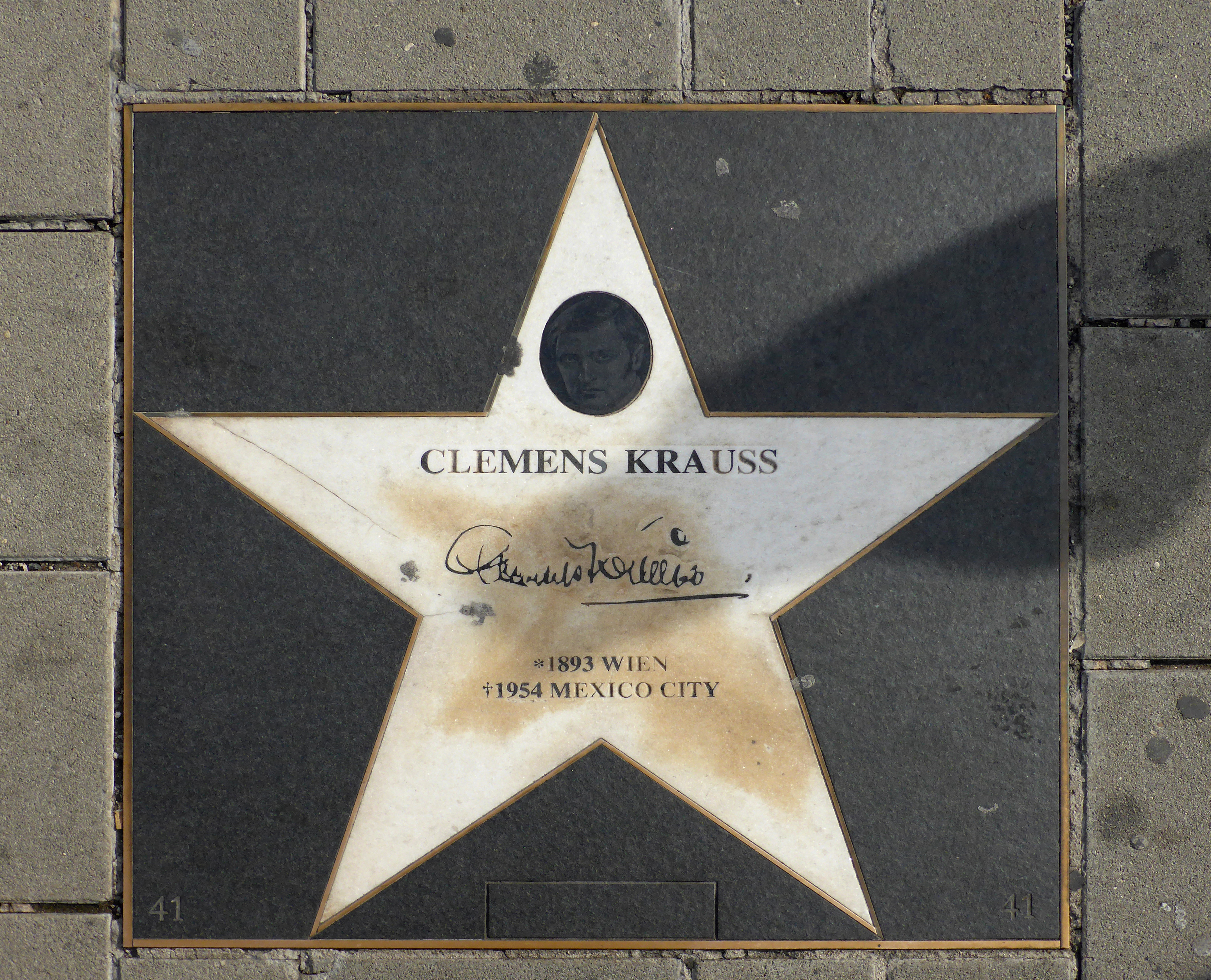 Walk of Fame Vienna Clemens Krauss.